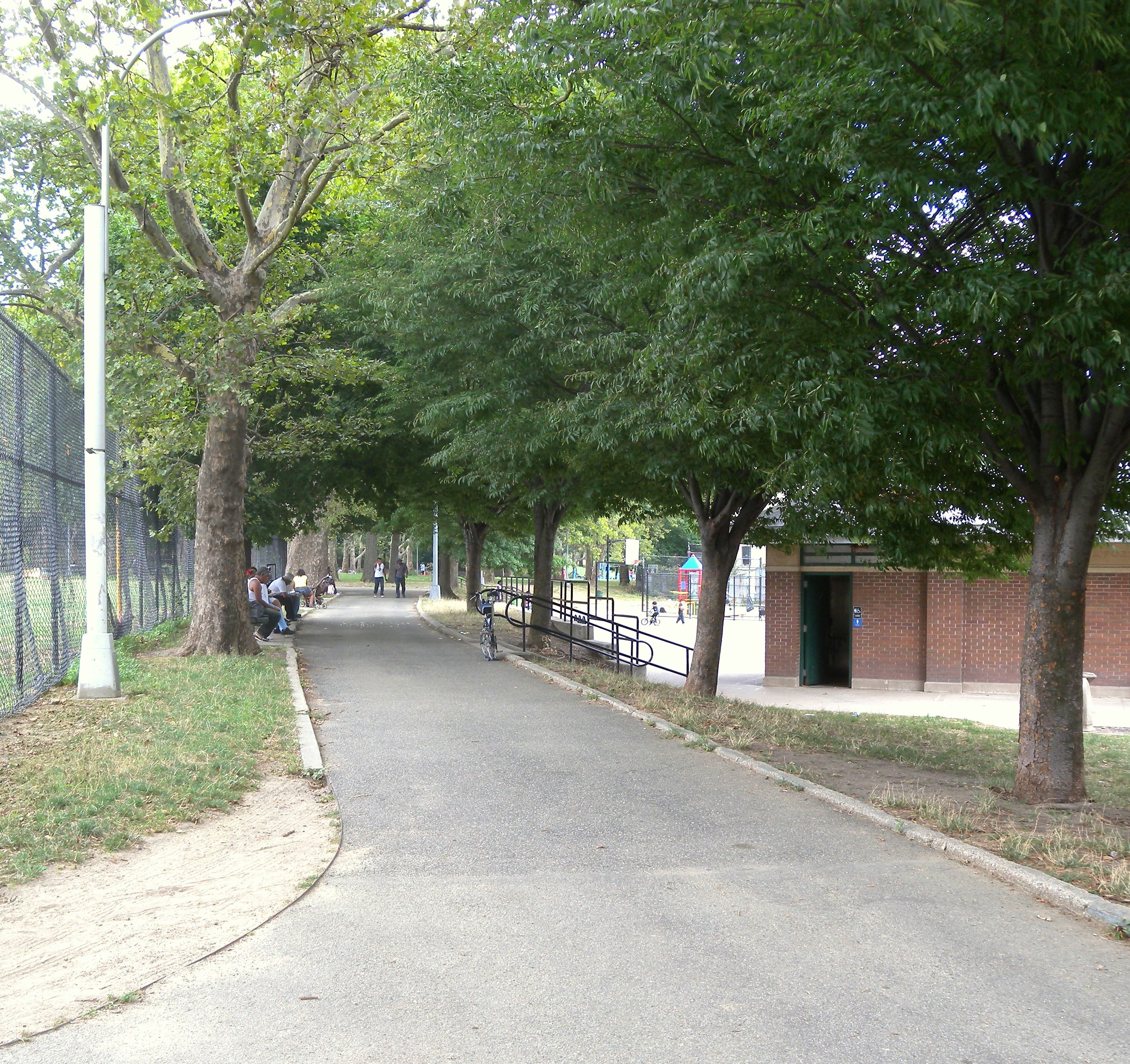 Looking northwest along footpath in southeastern St Mary's Park, indicating the line of the Port Morris branch, from a point west of East 144th Street, on a mostly sunny early afternoon.